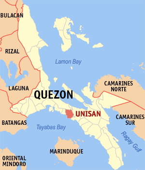 Map of Quezon showing the location of Unisan